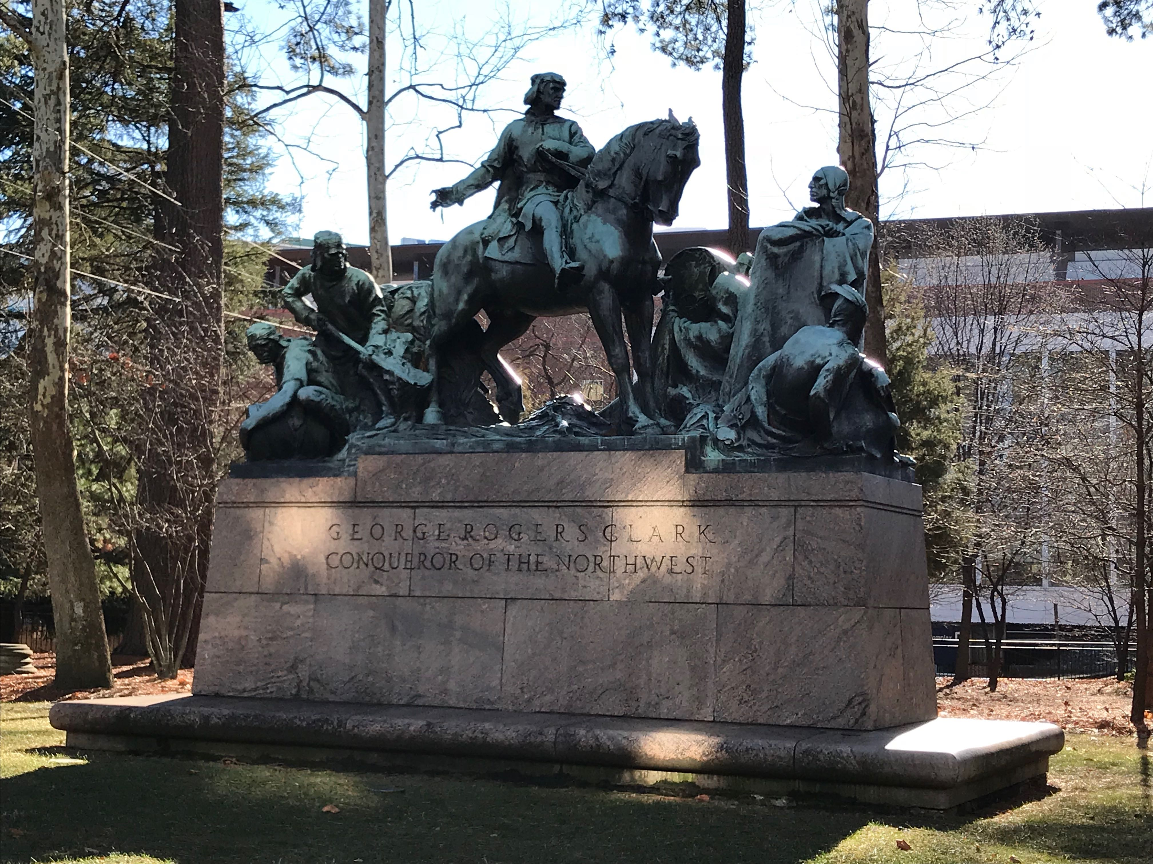 Bronze sculpture of George Rogers Clark by Robert Ingersoll Aitken in Monument Square in Charlottesville, Virginia, USA. Inscription on pedestal reads: "GEORGE ROGERS CLARK CONQUEROR OF THE NORTHWEST".